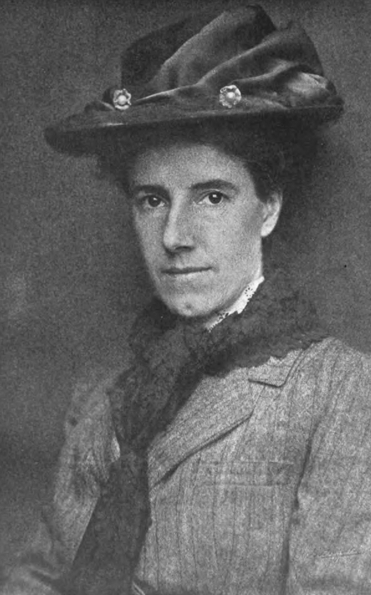 Charlotte Perkins Gilman